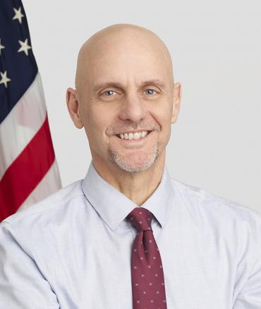 Dr. Stephen M. Hahn, Commissioner of Food and Drugs